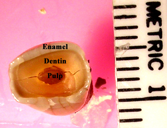 The effects of bruxism on an anterior tooth, labeled